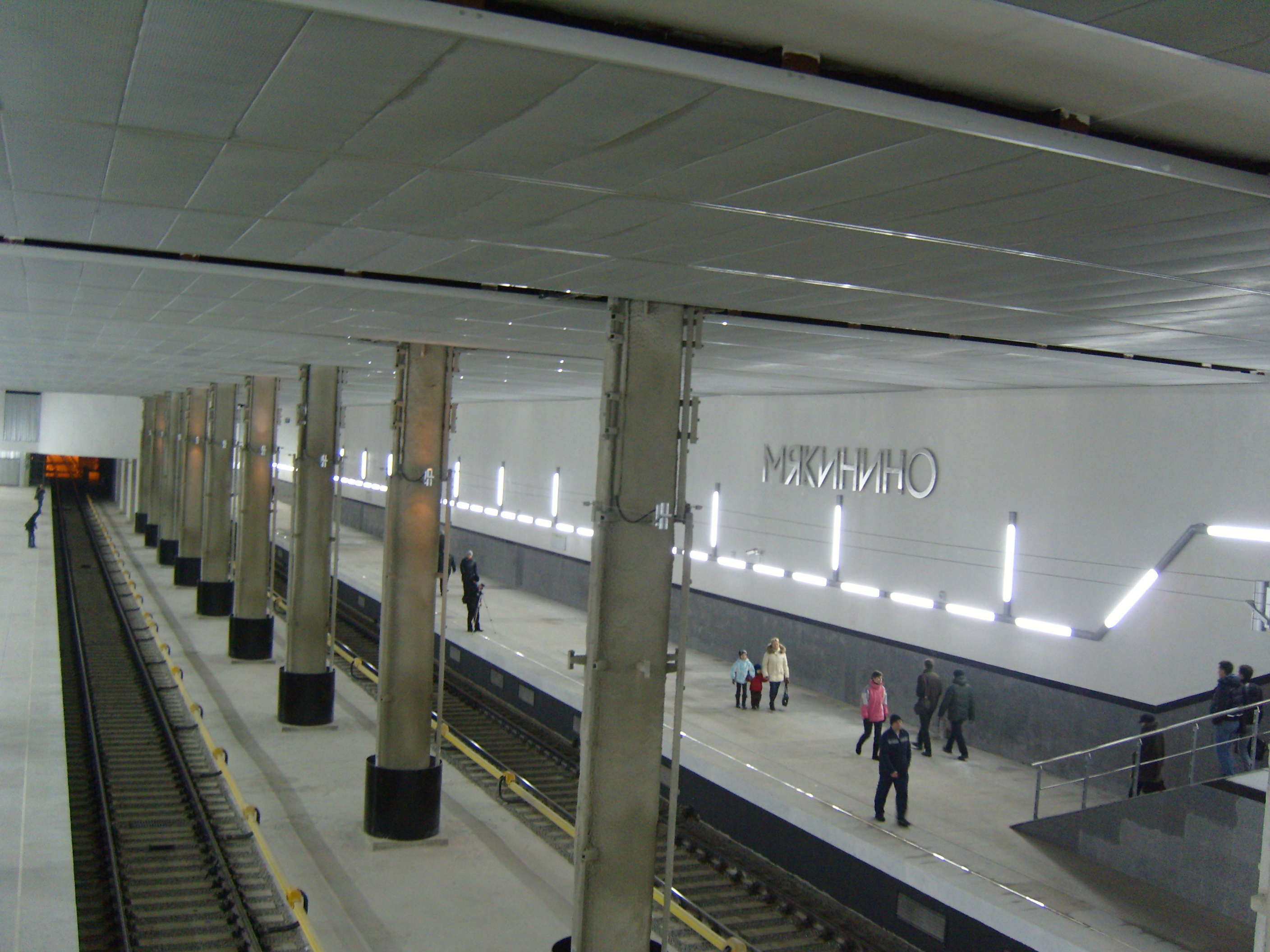 Opening of Moscow Metro station "Myakinino"